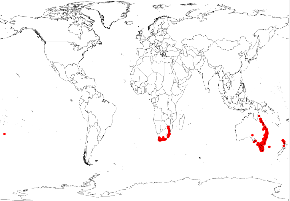 Todea barbara occurrence data downloaded 22 April 2019 from GBIF using